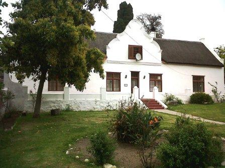 The Mission Station which is an important place of interest because of both its history and its architectural beauty, was founded in 1808 by the Moravian missionaries Kohrhammer and Schmidt under the auspices of Governor Lord Caledon on the site occupied by the Dutch East India Company's military and cattle outpost, “t Groenekloof", founded by Dutch Governor Simon van der Stel in 1679. The site houses the original church building still used today for the same purpose, the “Kleine (Little) Post” military outpost converted to a parsonage, mission houses now used as clerical buildings, a 1935 school house still used for this purpose, the historic shop used as a restaurant, the historic water mill restored and used as a local museum, a slave tree, a reed and thatch historic house, historic bakery with replica outside oven and a more recently constructed community hall. This media shows a South African Protected Site with SAHRA file reference 9/2/060/0004.